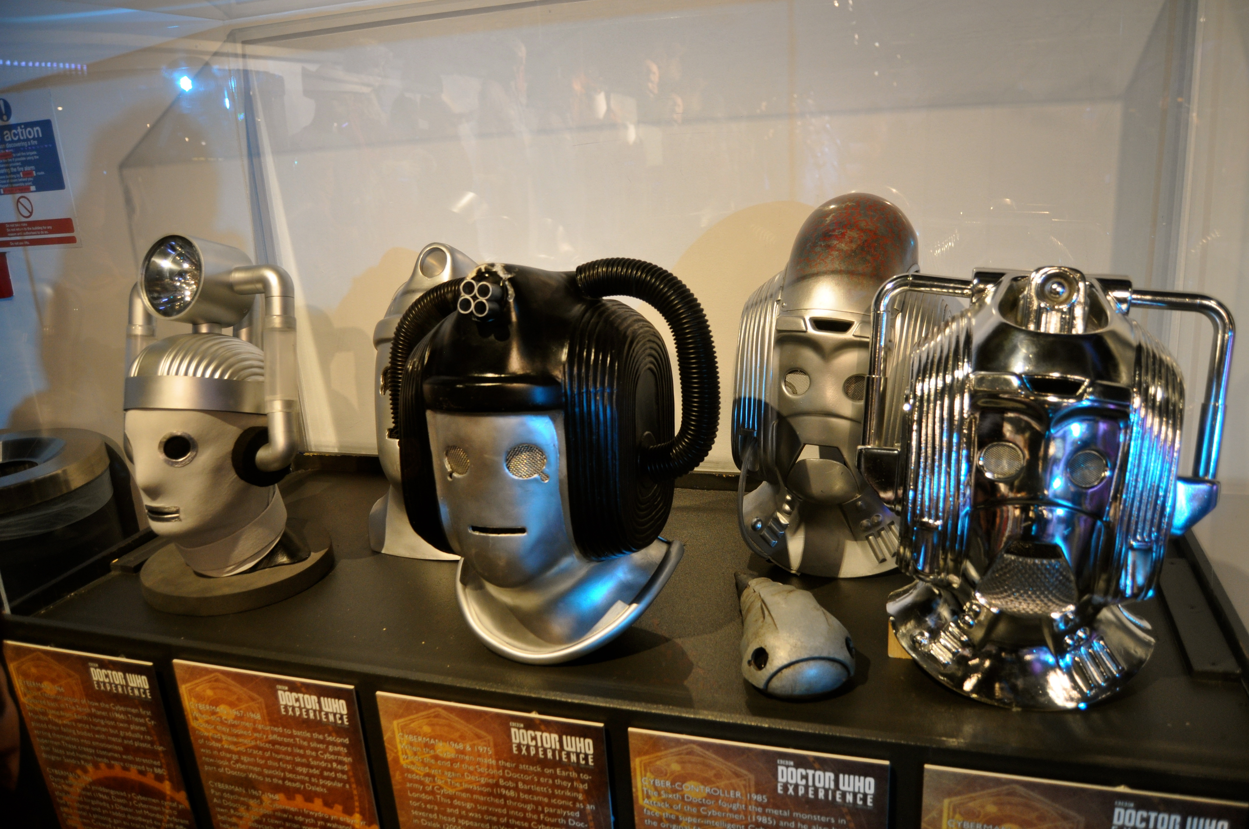 DWE Cardiff Bay, Port Teigr November 2016 Doctor Who Experience